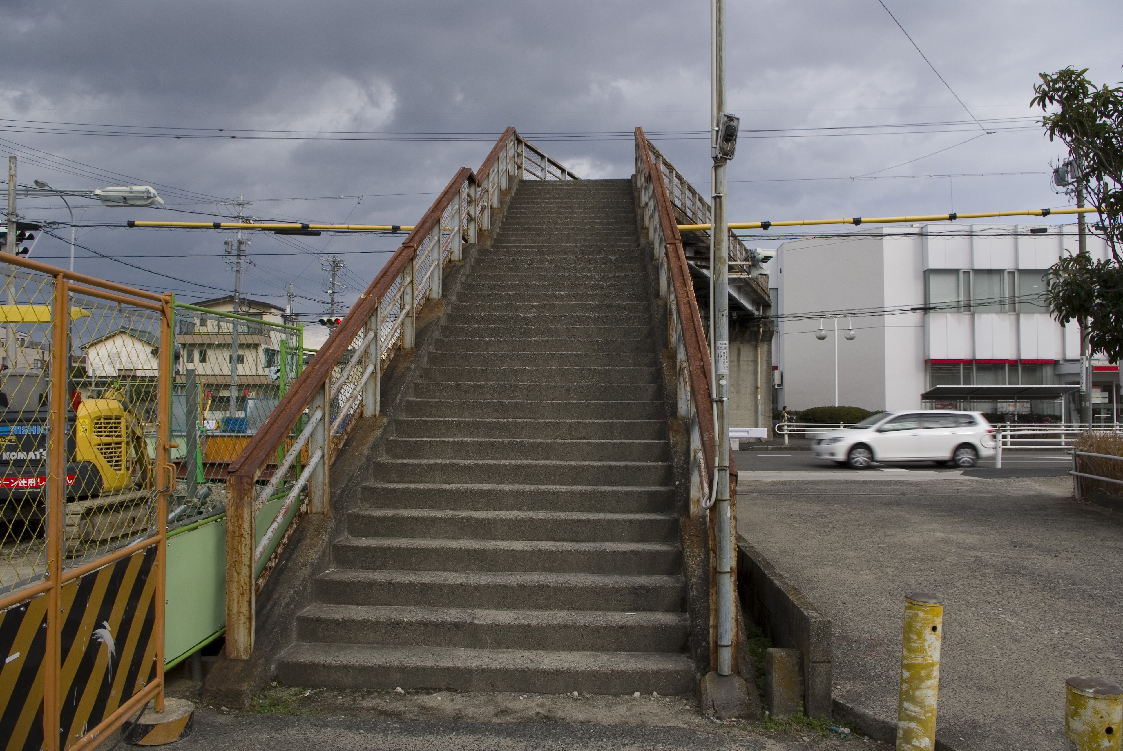 "Nishibiwajima-cho Footbridge"(Japan's oldest footbridge) in Kiyosu, Aichi, Japan. Built in 1959. 46.8 meter long.